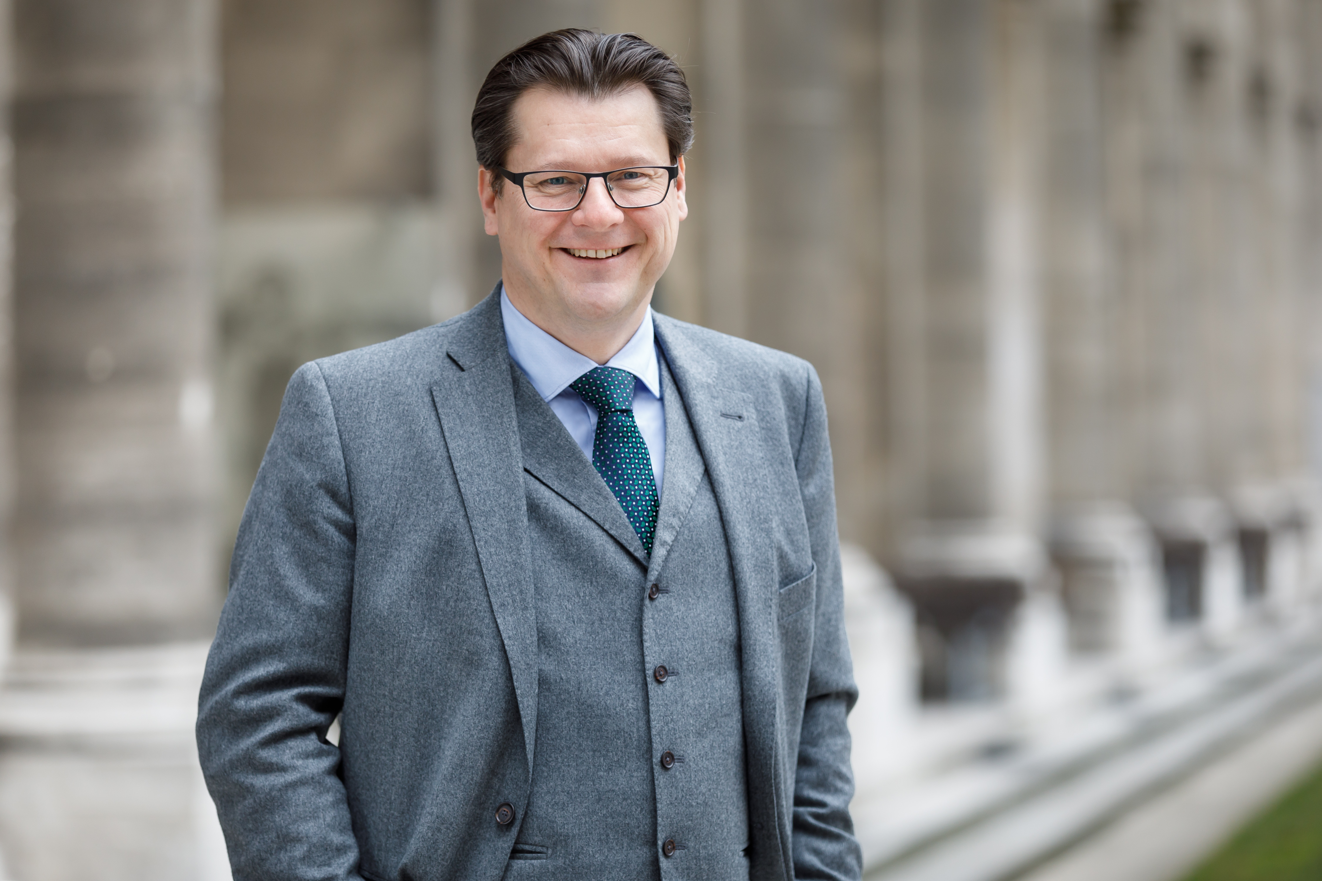 Portrait of Prof. Jean-Robert Tyran